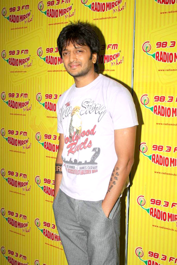 Riteish Deshmukh Kyaa Super Kool Hain Hum' team at 98.3 FM Radio Mirchi